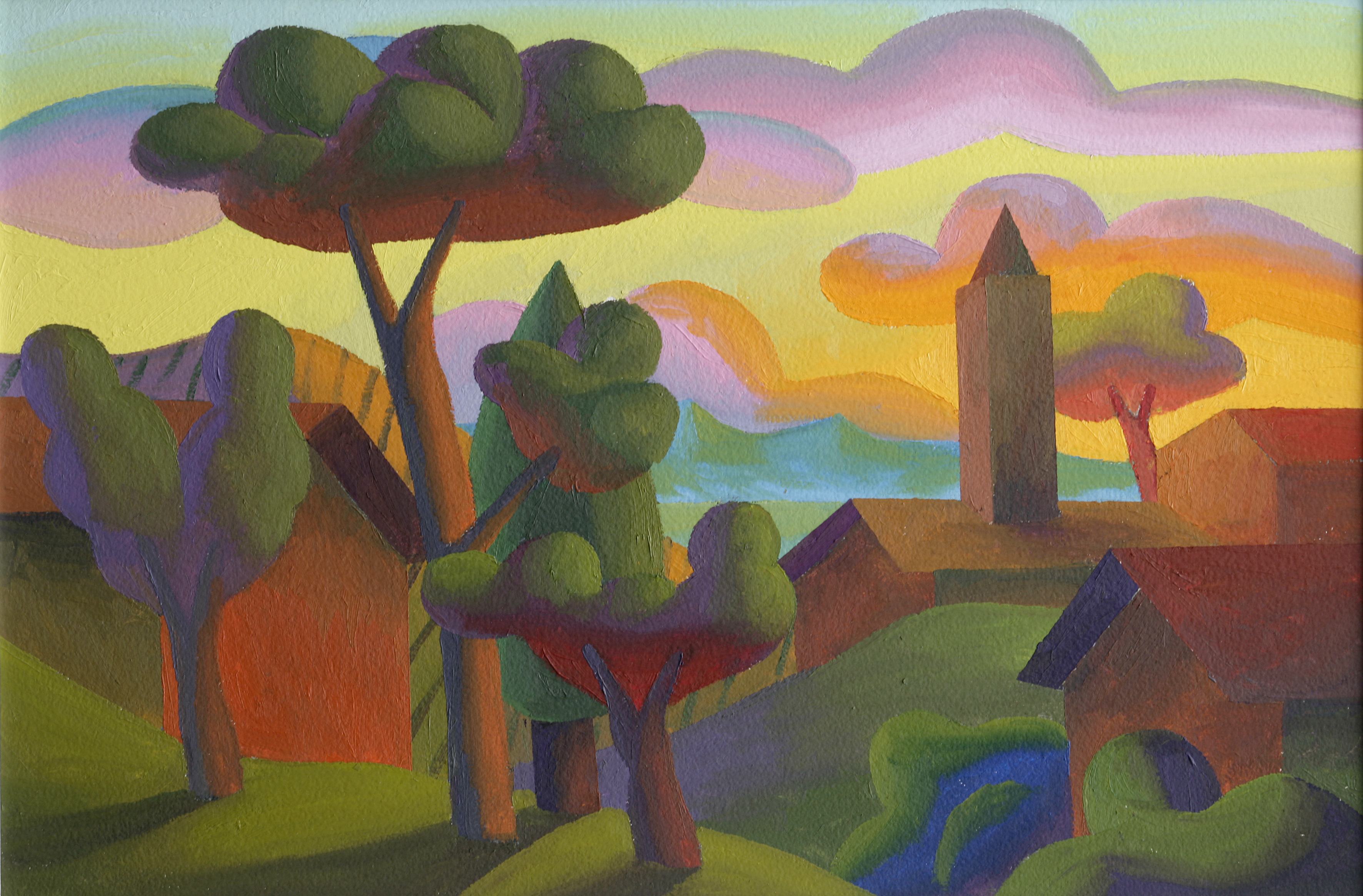 Salvo, La valle, 2008, olio su tavola, 40 x 60 cm